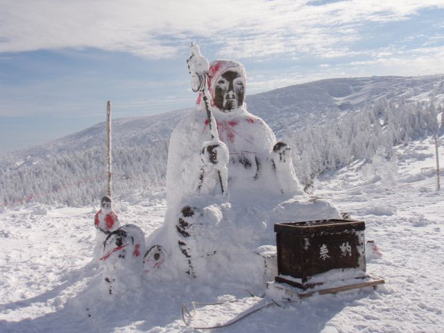 a guardian deity of children in zao